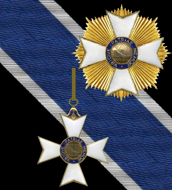 Star and grand cross in the Brazilian Order of Rio Branco.